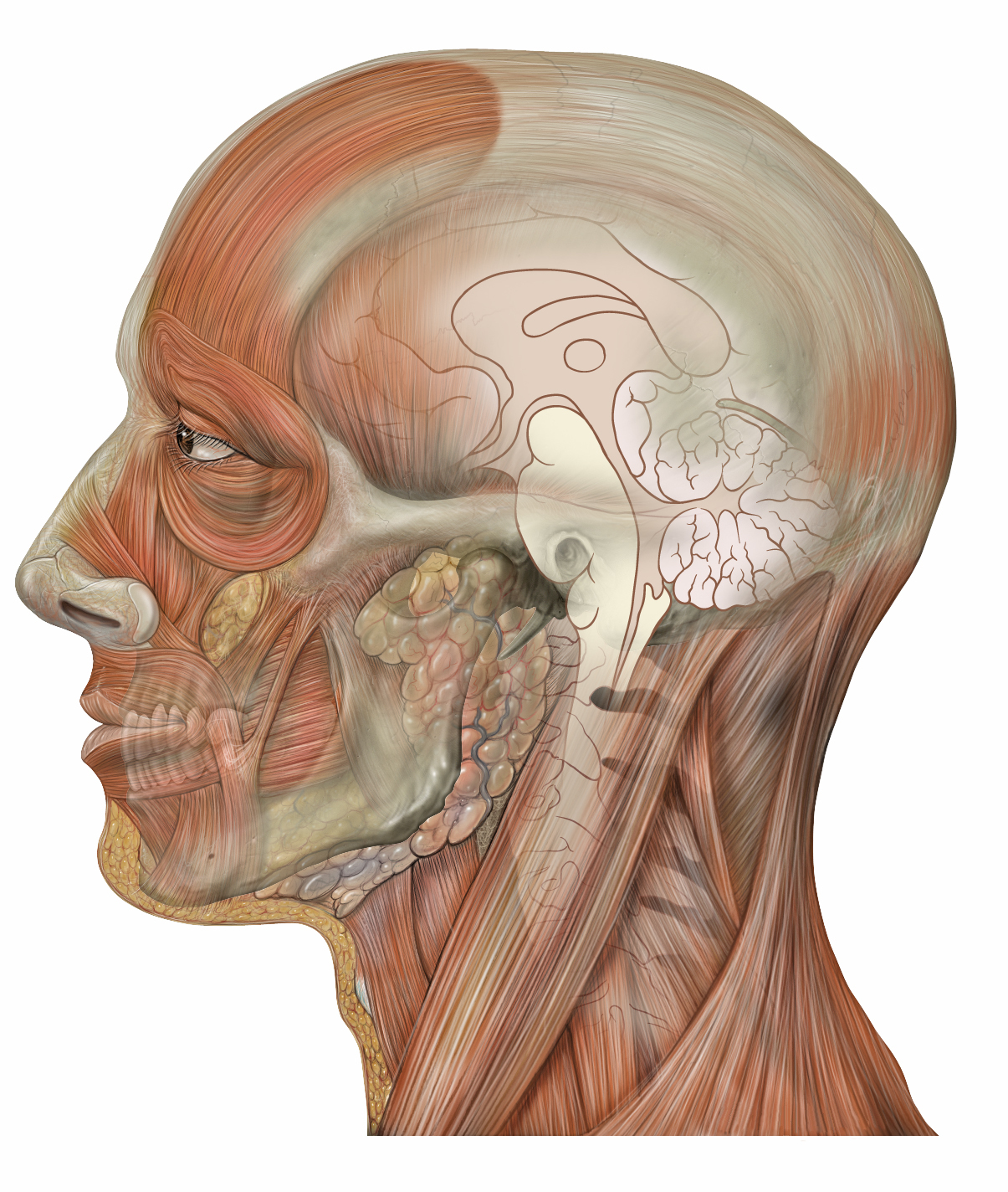 head lateral view with sagittal brain